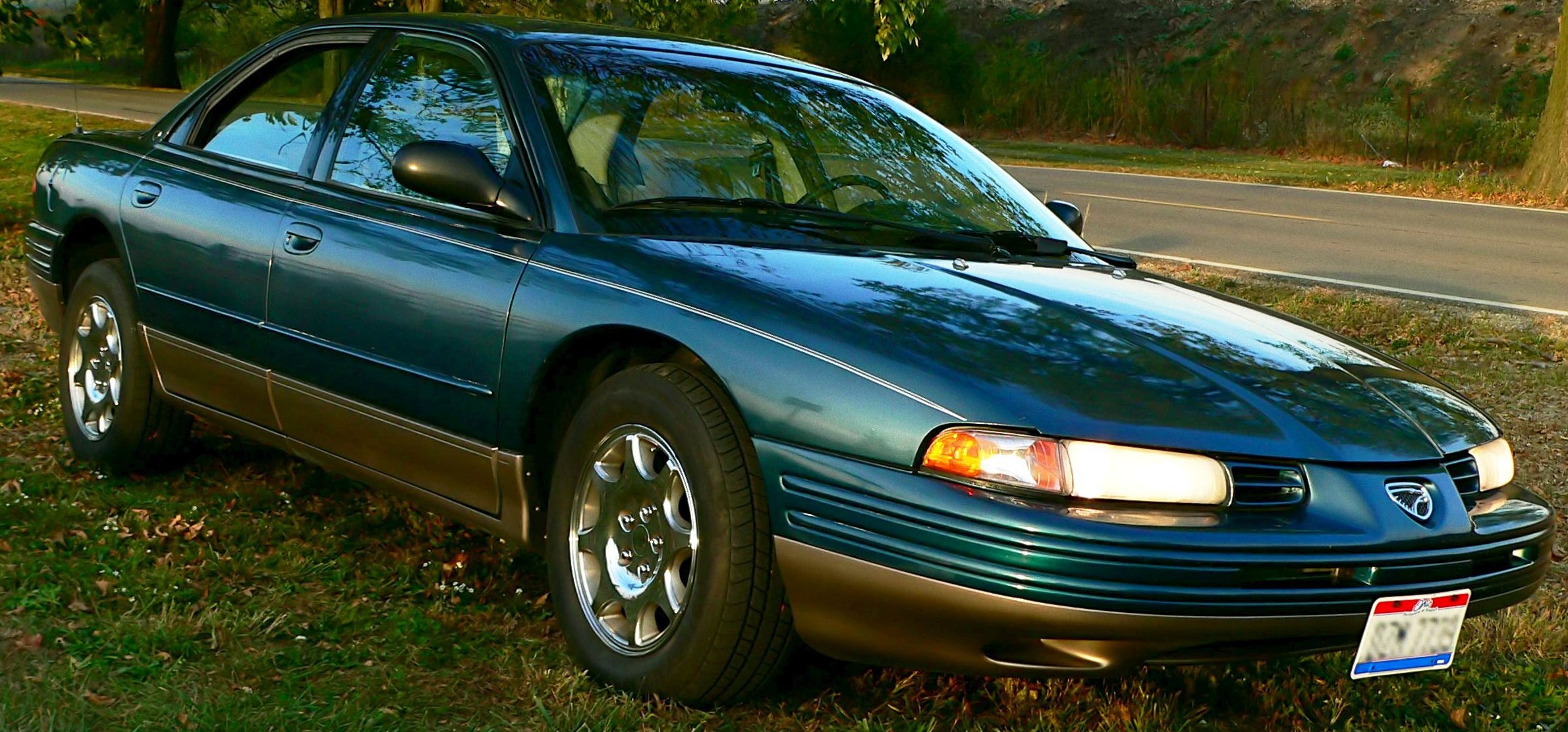 1995 (Chrysler) Eagle Vision ESi 3.5L sports sedan